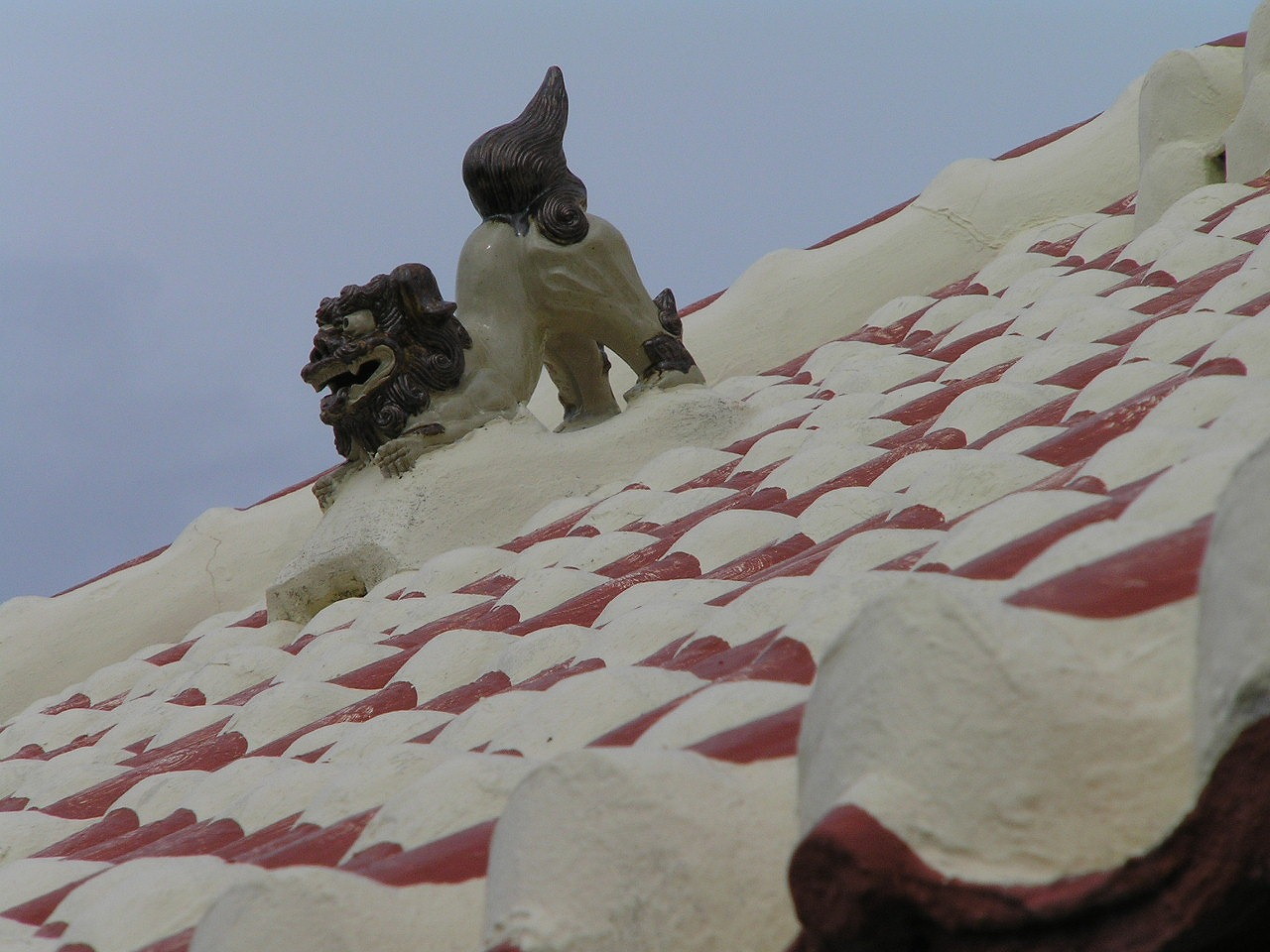 Shisa on the roof at Kuroshima island, Okinawa, Japan.